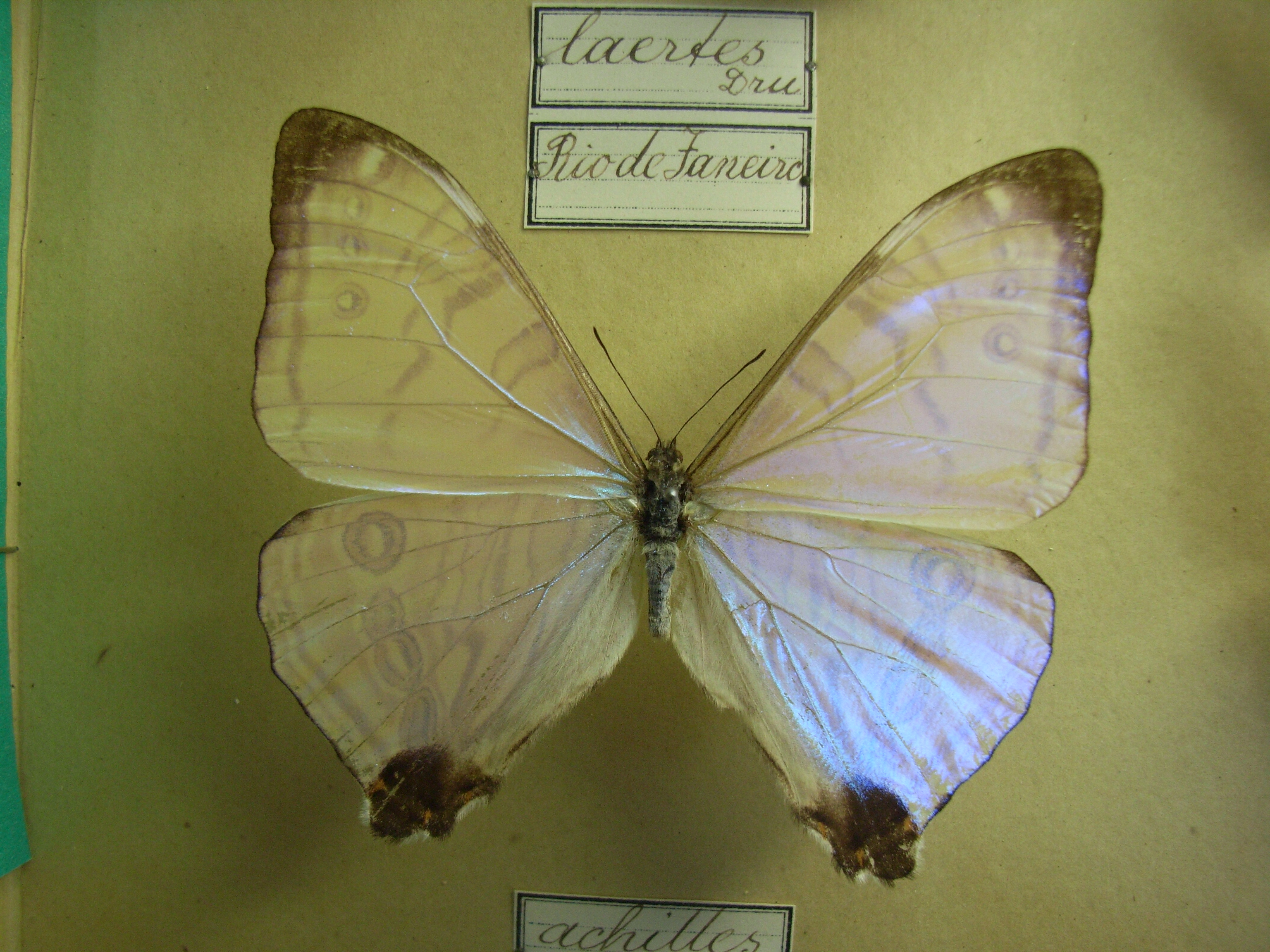 Morpho laertes Ex Collection Museum Wiesenbad